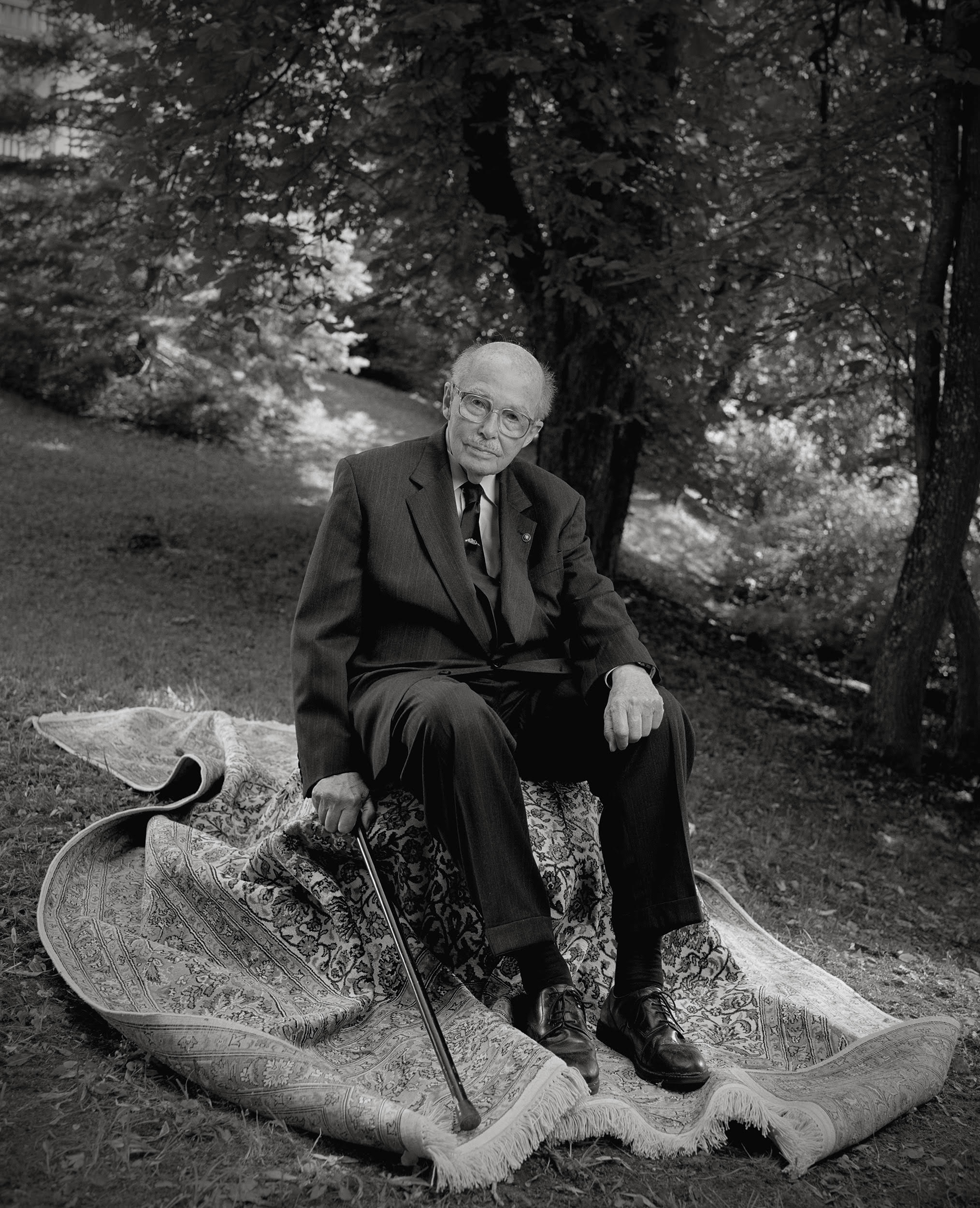 Portrait of Otto Habsburg-Lothringen by Oliver Mark, Pöcking 2006